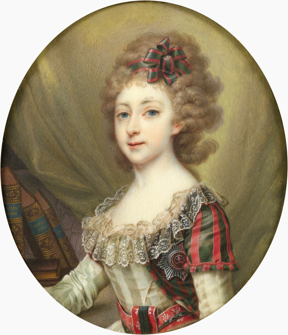 Princess Helena of Russia, Princess of Mecklenburg-Schwerin (1784-1803)